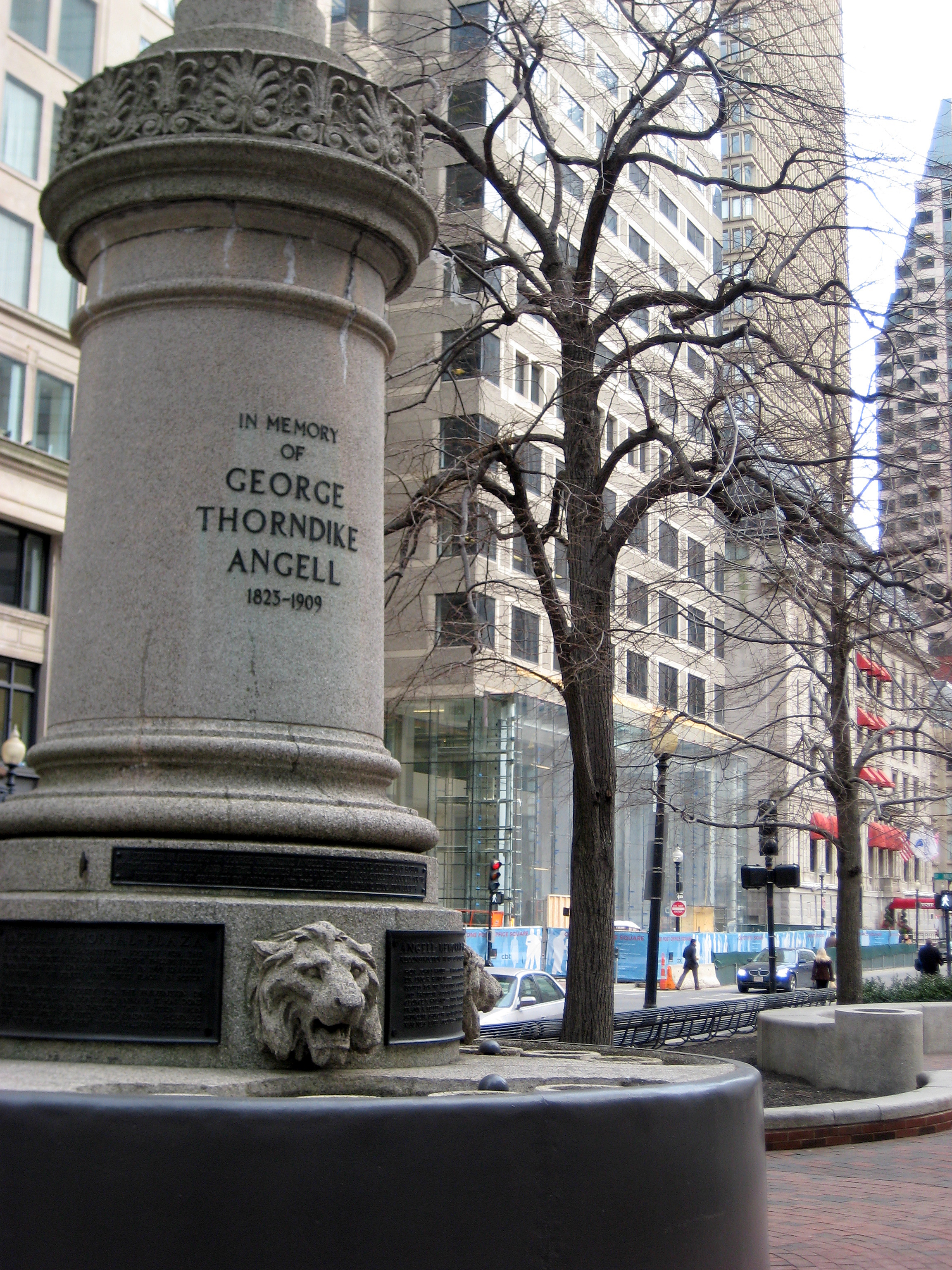 Detail of monument to George Thorndike Angell in the Financial District, Boston, Massachusetts. February 2009 photo by John Stephen Dwyer